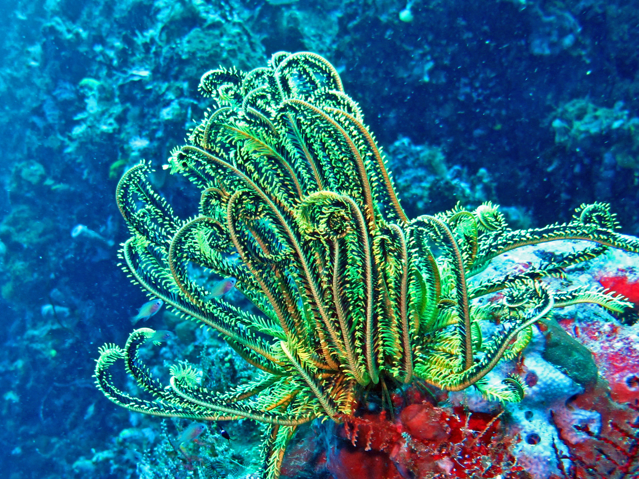 Oxycomanthus bennetti in Philippines)